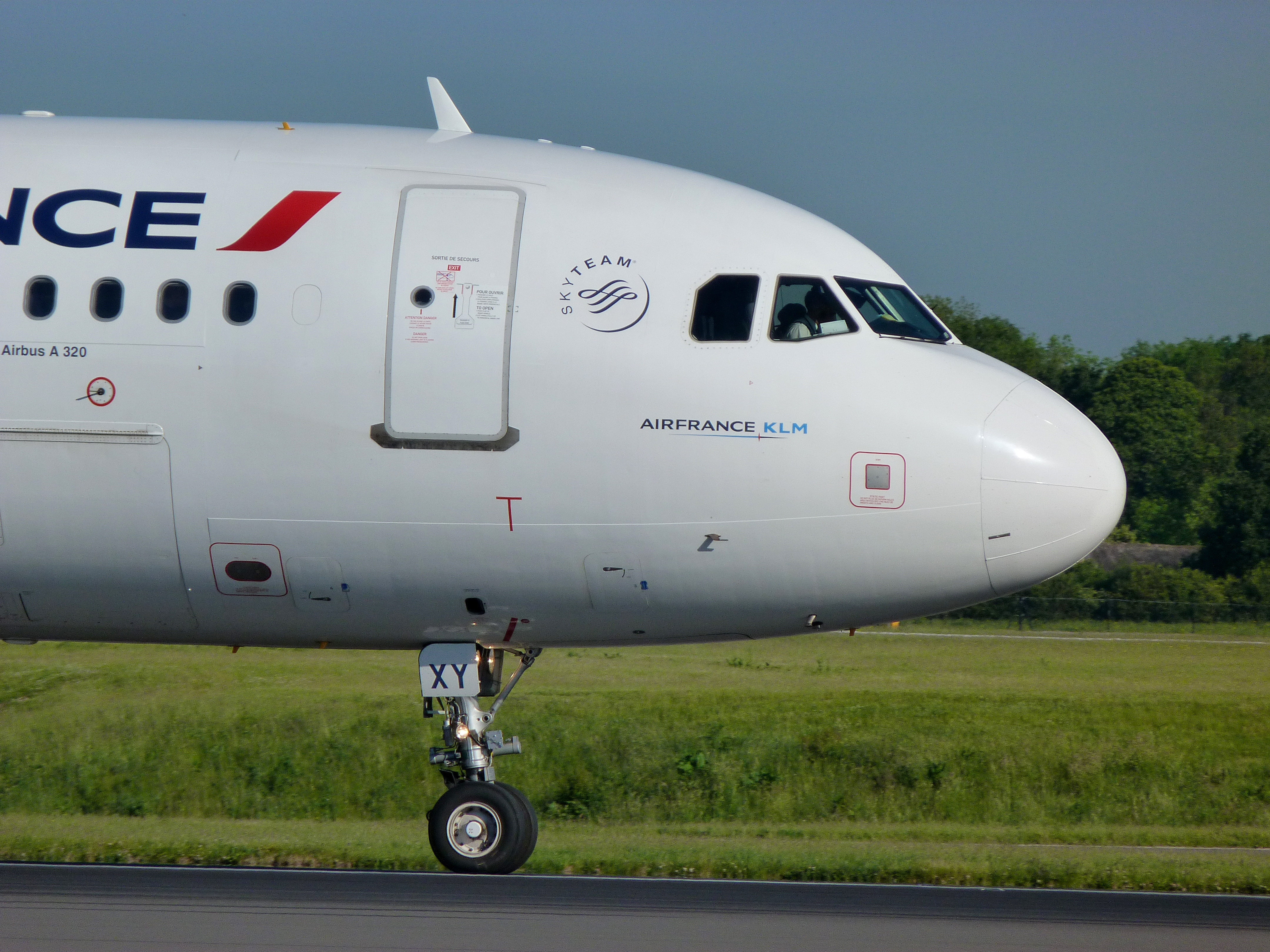 F-GKXY A.320 Air France